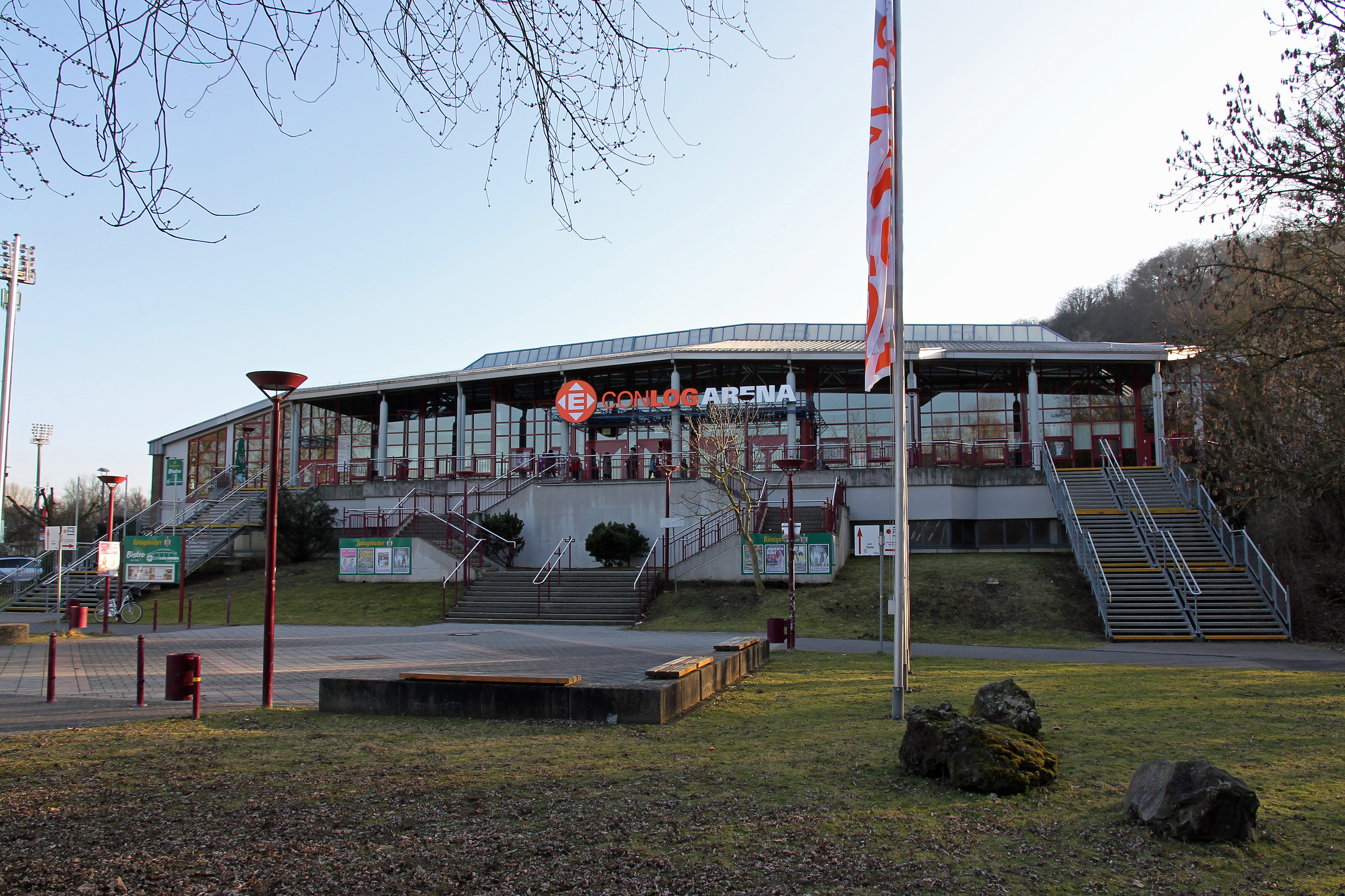 CGM Arena in Koblenz